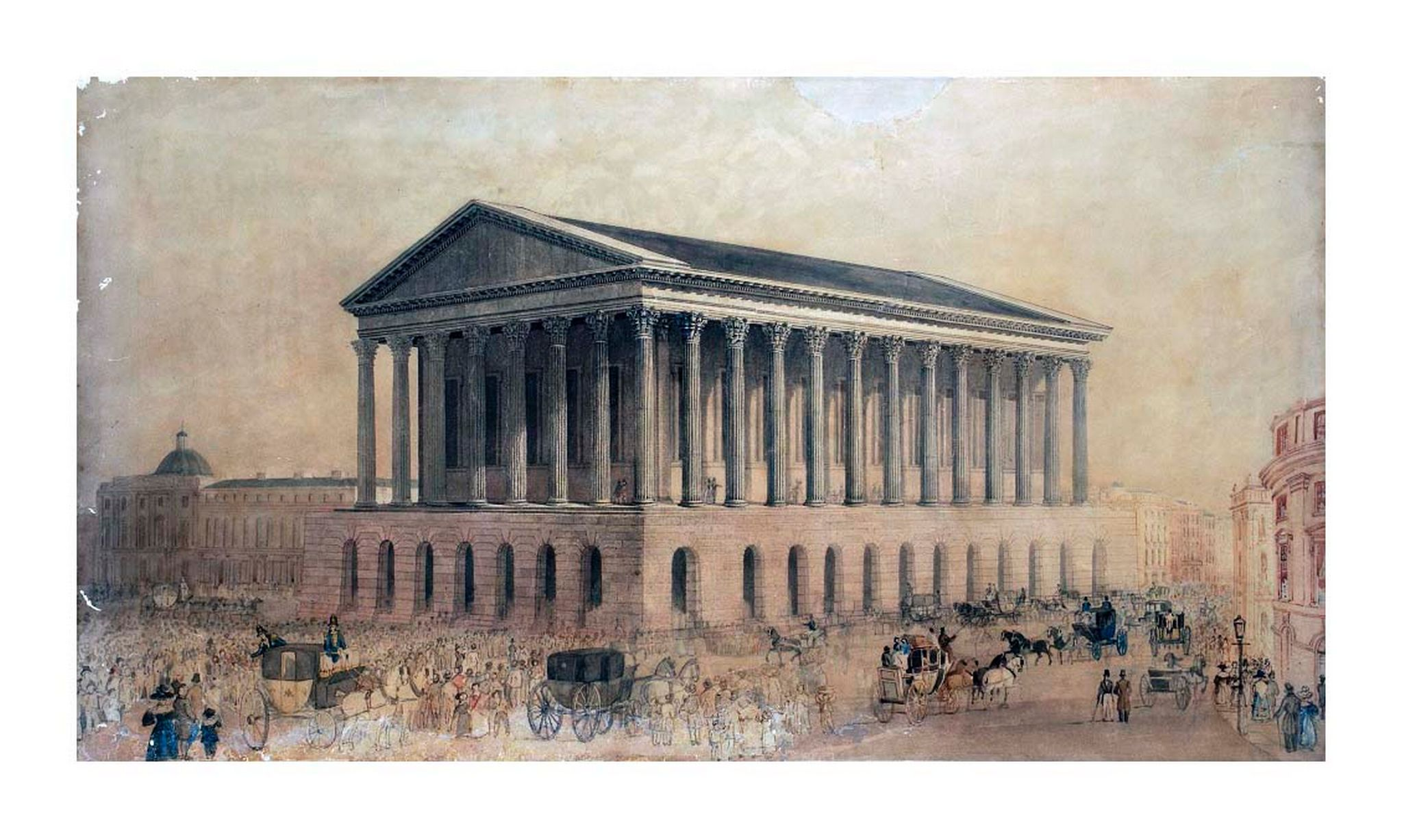 Artist's impression of Joseph Hansom and Edward Welch's design for Birmingham Town Hall, England, as entered into the competition to design the building. Original in the collection of Birmingham Assay Office, displayed at the Town Hall. Size: 33 ins by 18.5 ins